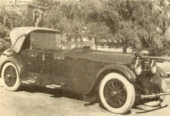 Custom built mahogany red Locomobile owned by actor Tom Mix with leather strappings on doors and saddle colored upholstery. Page 68 September 1921 Photoplay.